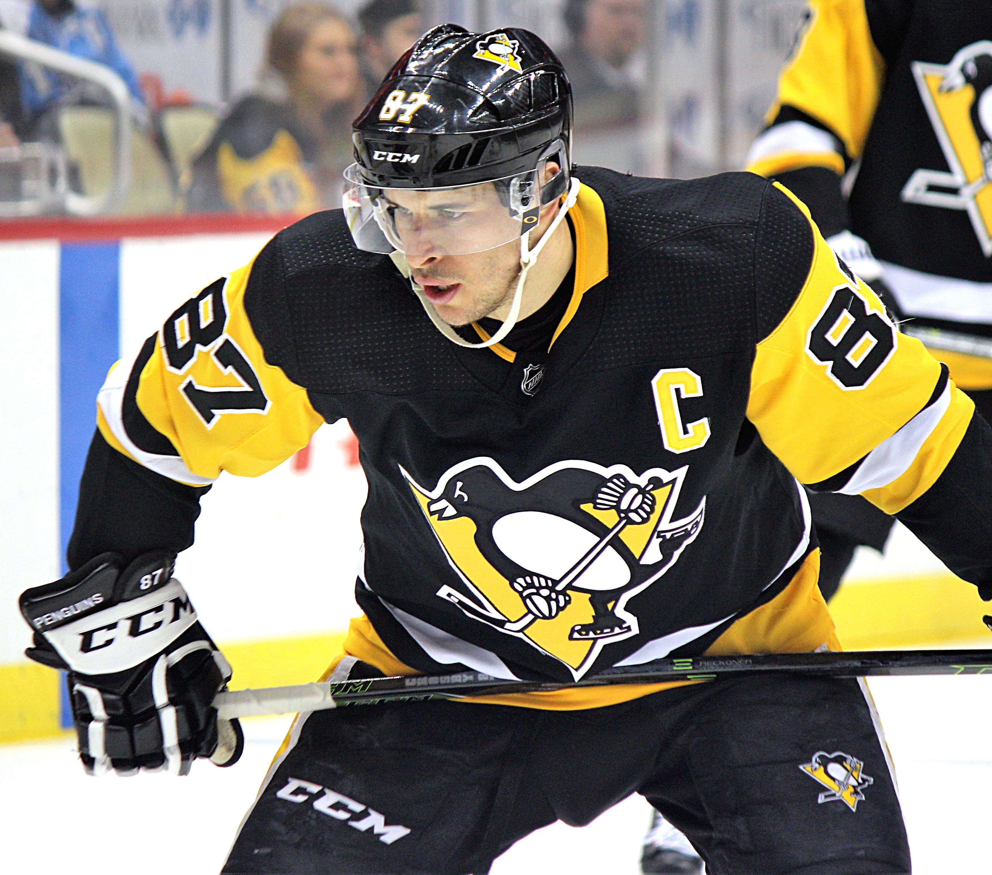 Pittsburgh Penguins captain Sidney Crosby during a game against the New York Islanders, Saturday, March 3, 2018, at PPG Paints Arena in Pittsburgh, PA.